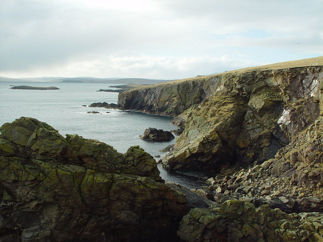 Clett Head, Whalsay, Shetland. Looking WNW along the coastline from Clett Head. The small island to the left is the Holm of Sandwick. The Shetland Mainland is in the background.